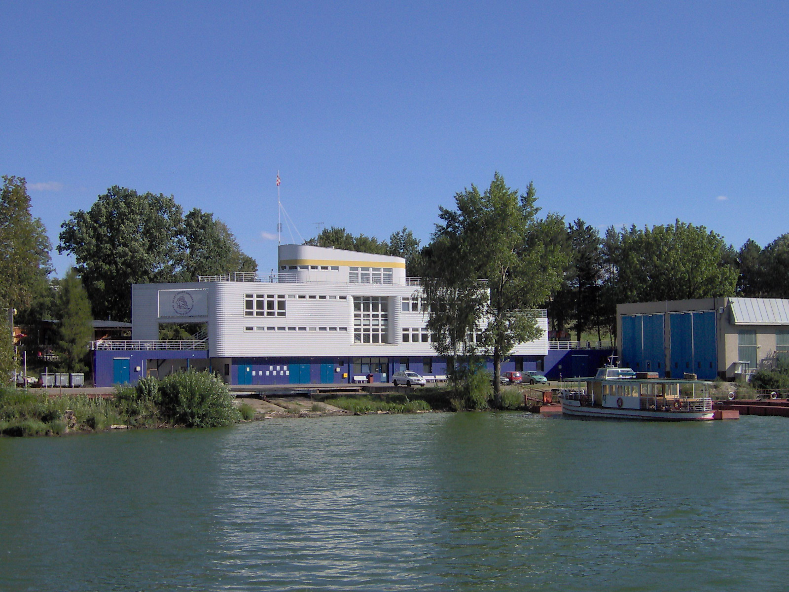 Shipyard Brno-Bystrc on the Brno dam